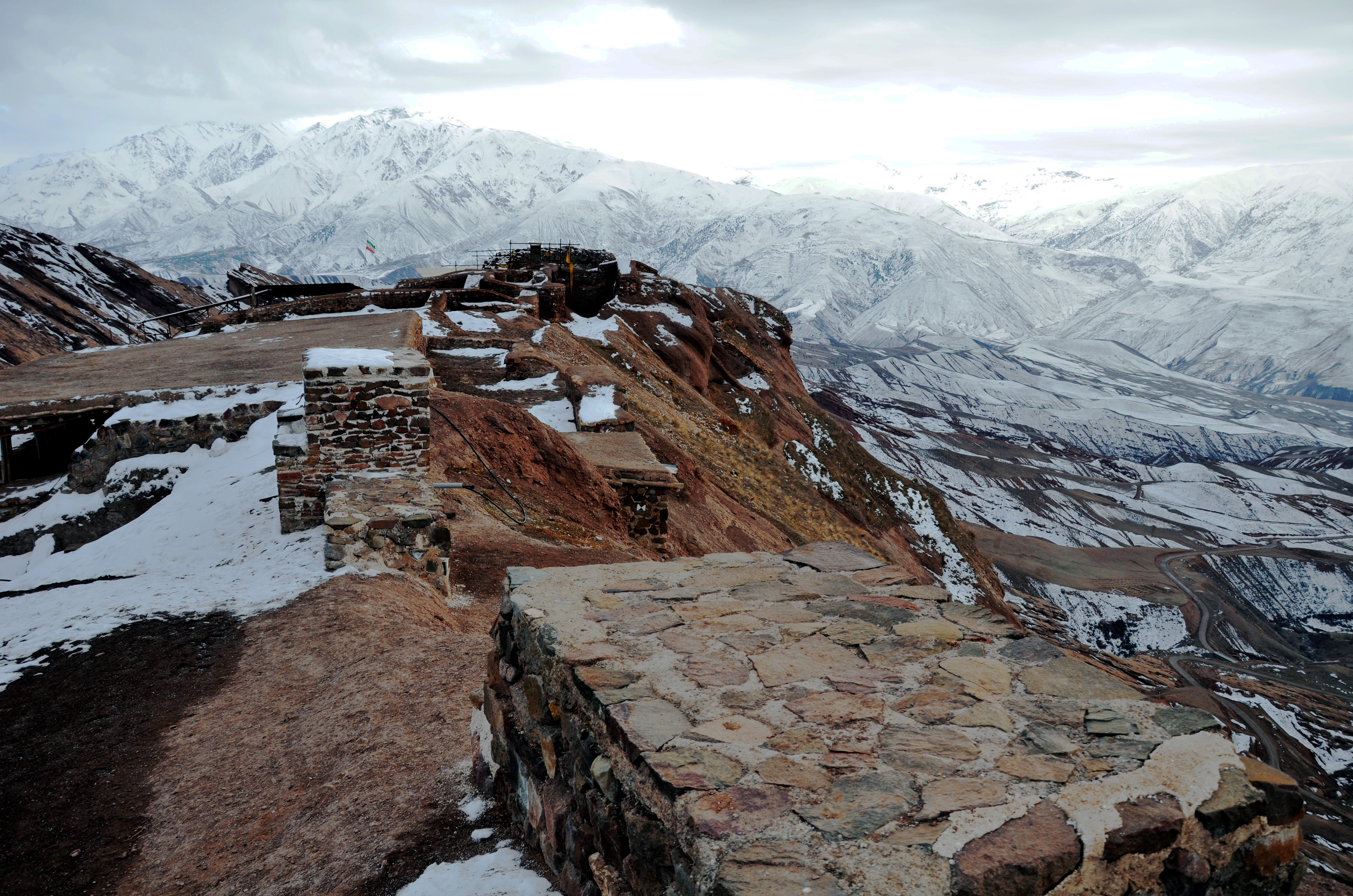 Qazvin - Alamout Castle